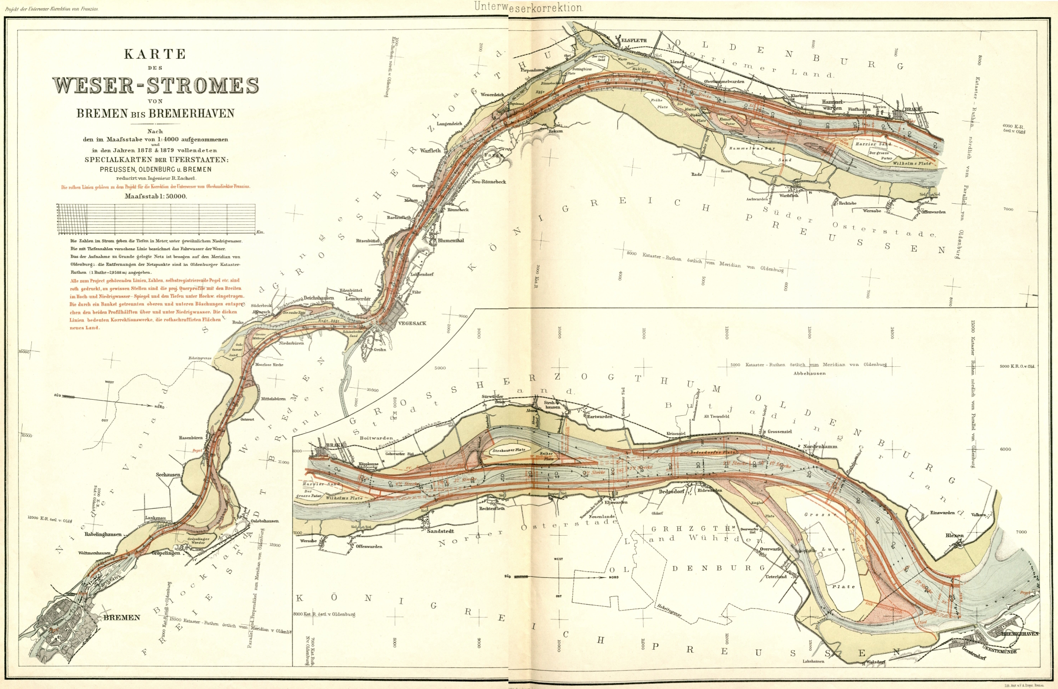 Survey map of the straightening of Lower Weser or Weser inner estuary (DE: "Korrektion der Unterweser") drawn in 1888 by Ludwig Franzius, the engineer who proposed and realized this project